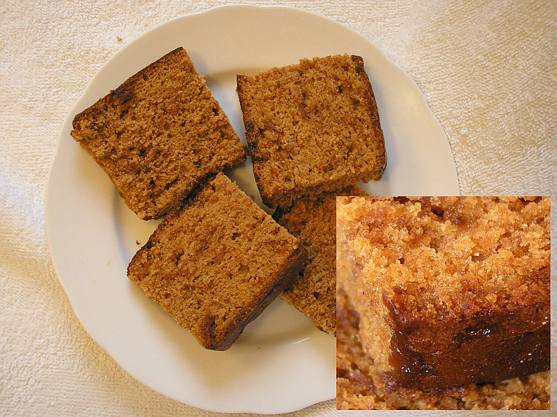 Frisian "kruidkoek" (somewhat cake-like) - with close-up Location: Netherlands